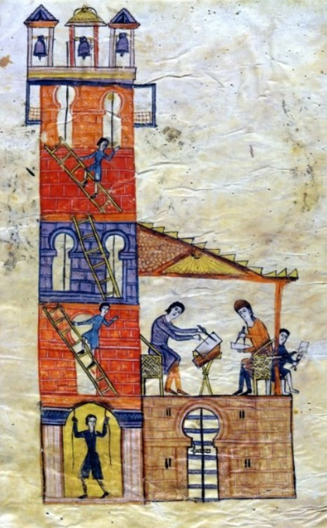 The representation of the celebrated scriptorium of San Salvador de Tábara was copied from a Beatus manuscript completed in Tábara in 970. The two images are the earliest "portraits" of a medieval scriptorium in a manuscript. It shows the scribe and illuminator laying out their folios, while a novice trims parchment. In the tower, three men ring the bells, which functioned as the community's clock.